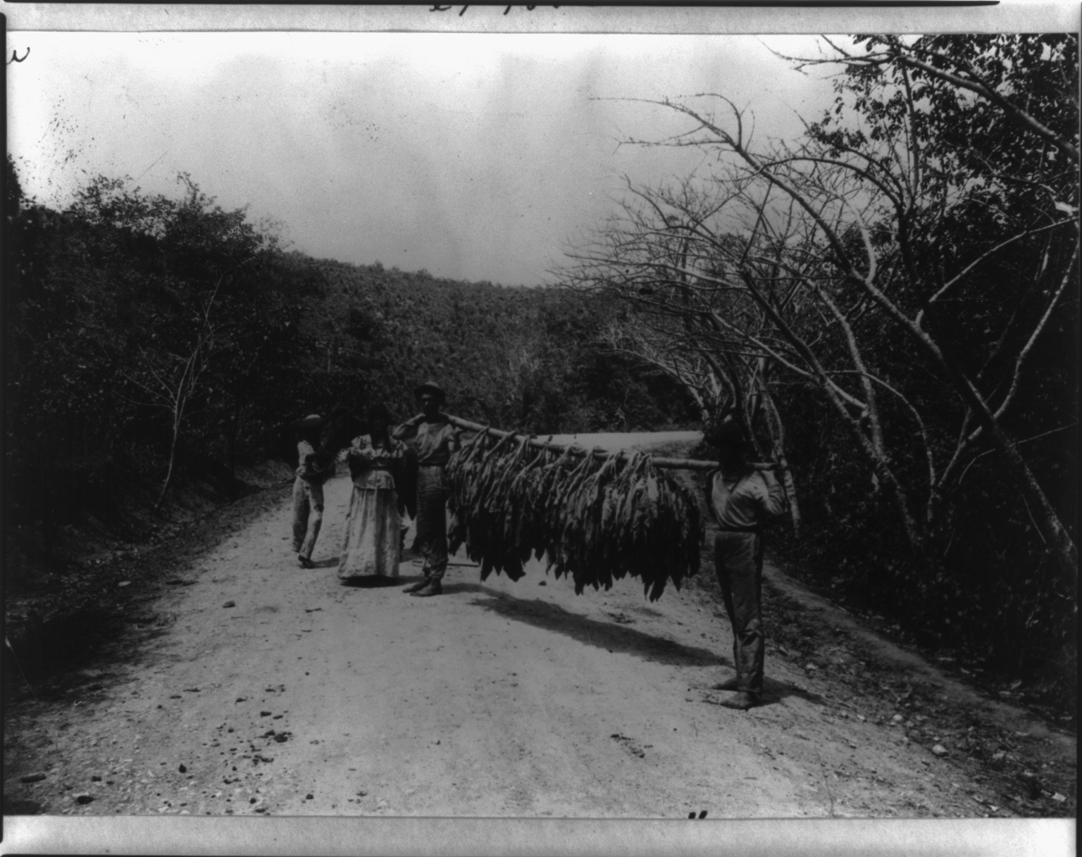 Title: Carrying tobacco in Cuba Physical description: 1 photographic print. Notes: Title and other information transcribed from caption card and item.; LOT subdivision subject: Cuba.; Frank and Frances Carpenter Collection (Library of Congress).